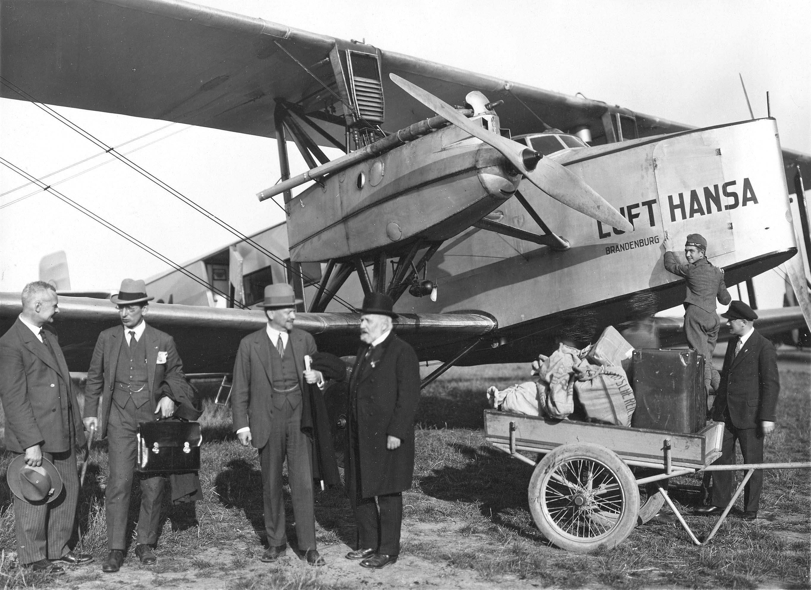 Translation: Yngve Larsson, then head of the City Offices in Stockholm City Hall, with hat, glasses and a bag. Here he is seen together with several people in connection with the inauguration of Stettin airport in 1927. In the background an Albatros L 73b (D-961 "Brandenburg", Werknr. 10077) from Lufthansa. To the right of Larsson probably the Minister of Communications Carl Meurling.